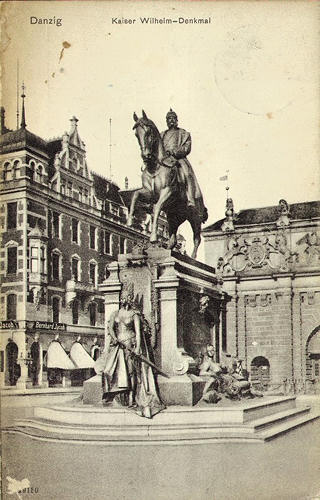 Monument to Wilhelm I, the German Emperor. Demolished after World War II.